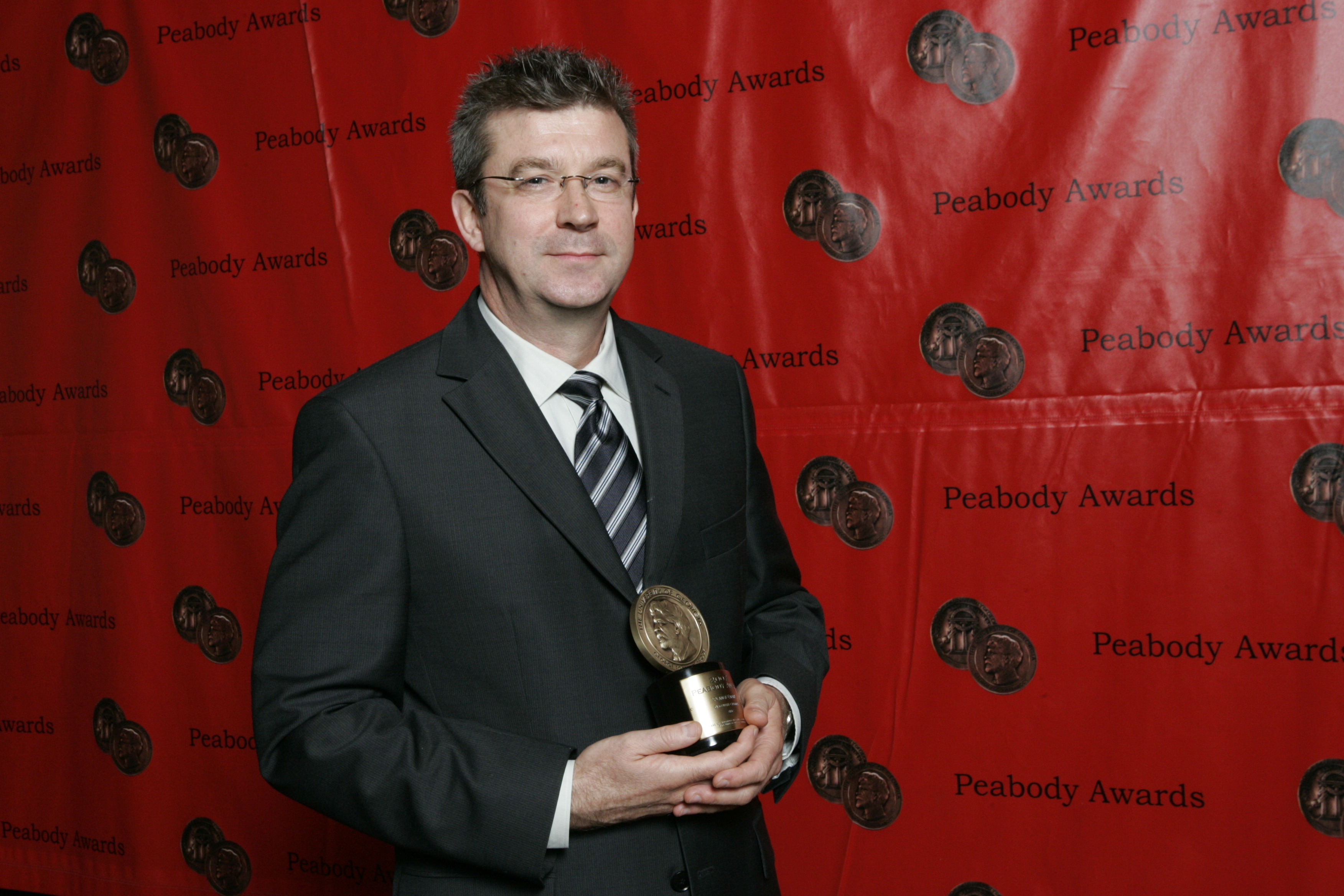 Jeff Hasler 67th Annual Peabody Awards Luncheon Waldorf=Astoria Hotel New York, NY USA June 16, 2008